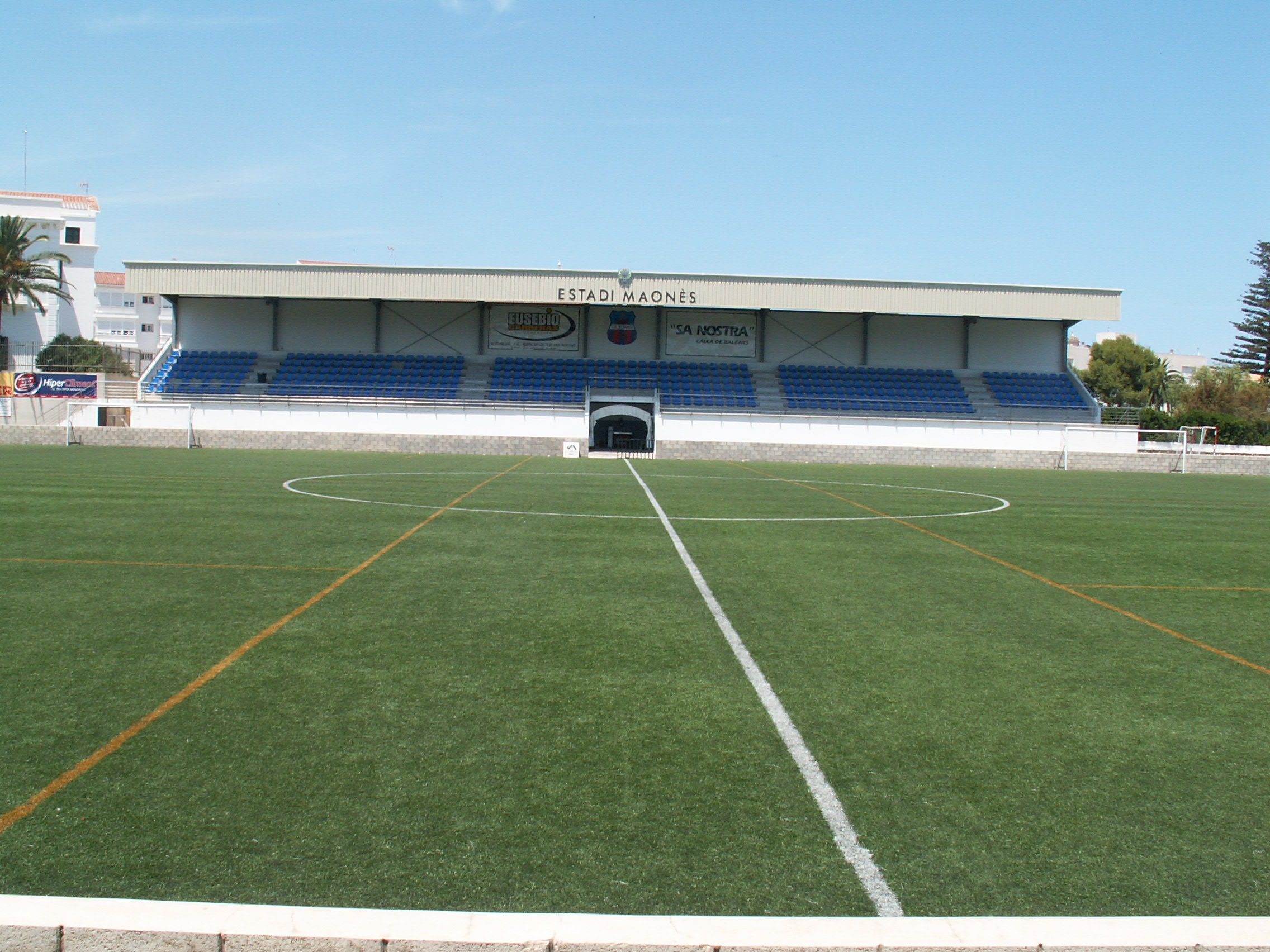 I am the photographer and release this work into the public domain.